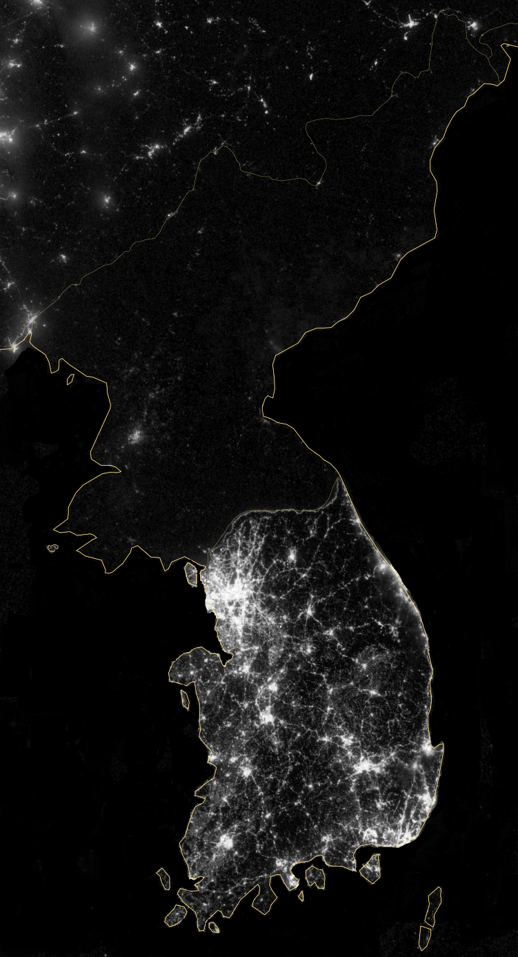 An image showing the Korean peninsula at night in the year 2012. A composite image, constructed using cloud-free night images taken by the National Aeronautics and Space Administration (NASA) and the National Oceanic and Atmospheric Administration (NOAA) Suomi National Polar-orbiting Partnership (NPP) satellite. These photographs were taken with the Visible Infrared Imaging Radiometer Suite (VIIRS), and the composite was published by NASA on December 5, 2012. I modified the image by removing the lights from ships on the open ocean to highlight the contrast between North Korea and South Korea. Note: North Korea turns off street lighting late evening,[1] so if this photo was taken at around midnight local time, it might not indicate electricity generating capacity in a balanced way.